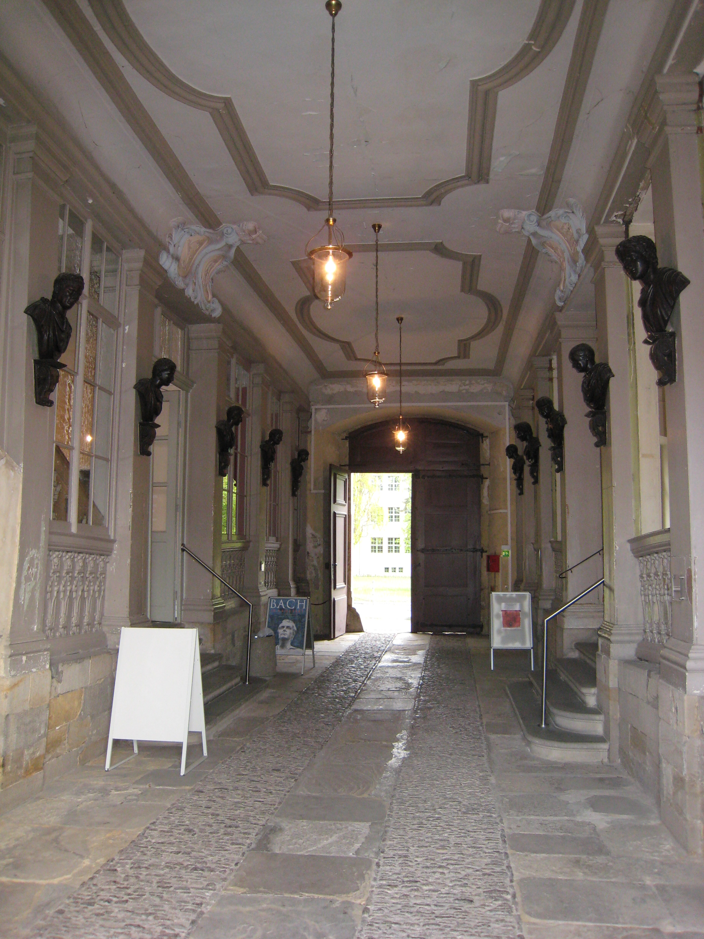 Eingangshalle Schlossmuseum Arnstadt